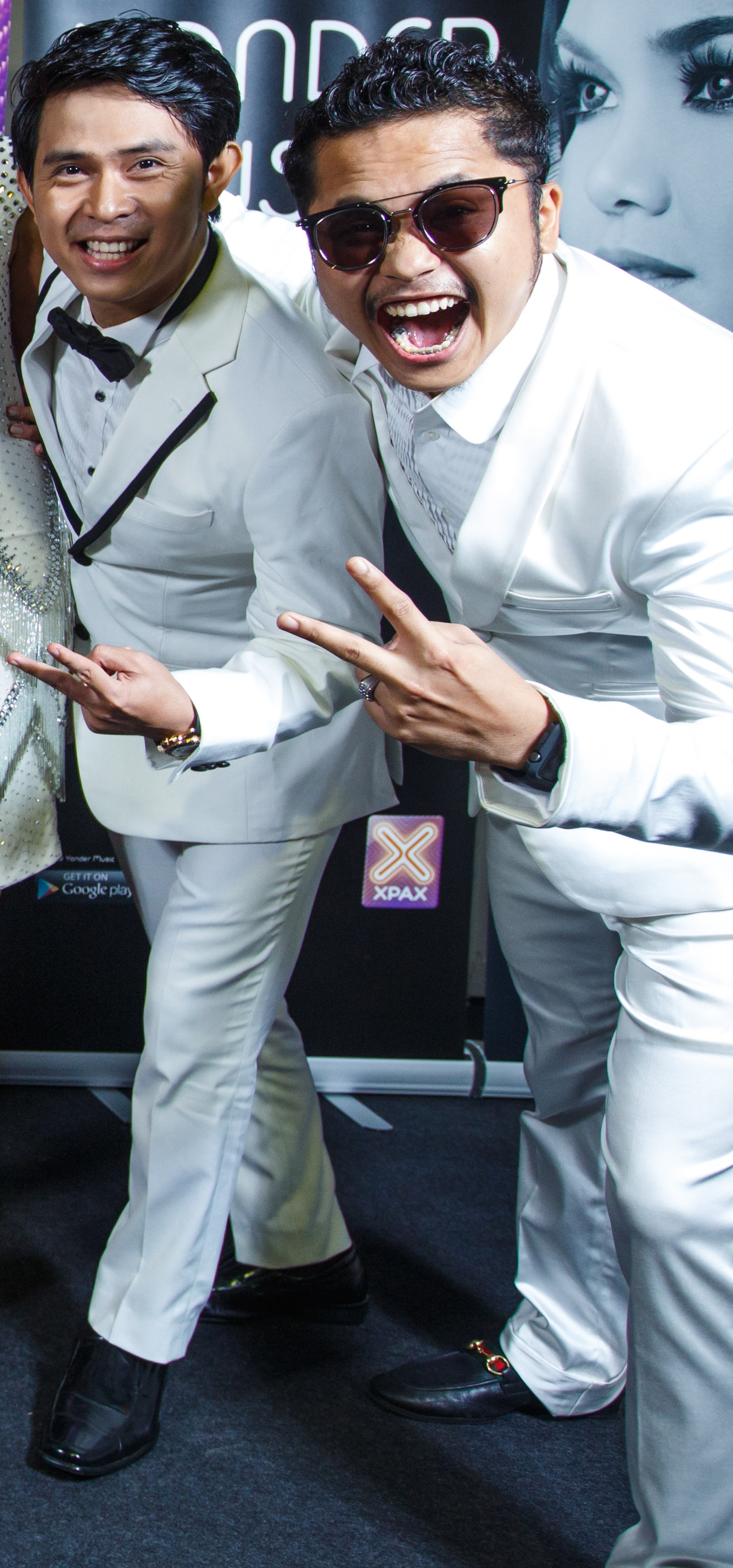 Cakra Khan and Hafiz Suip as guest artists for Dato' Siti Nurhaliza & Friends concert. Original source is from All Is Amazing's Official Facebook Account.